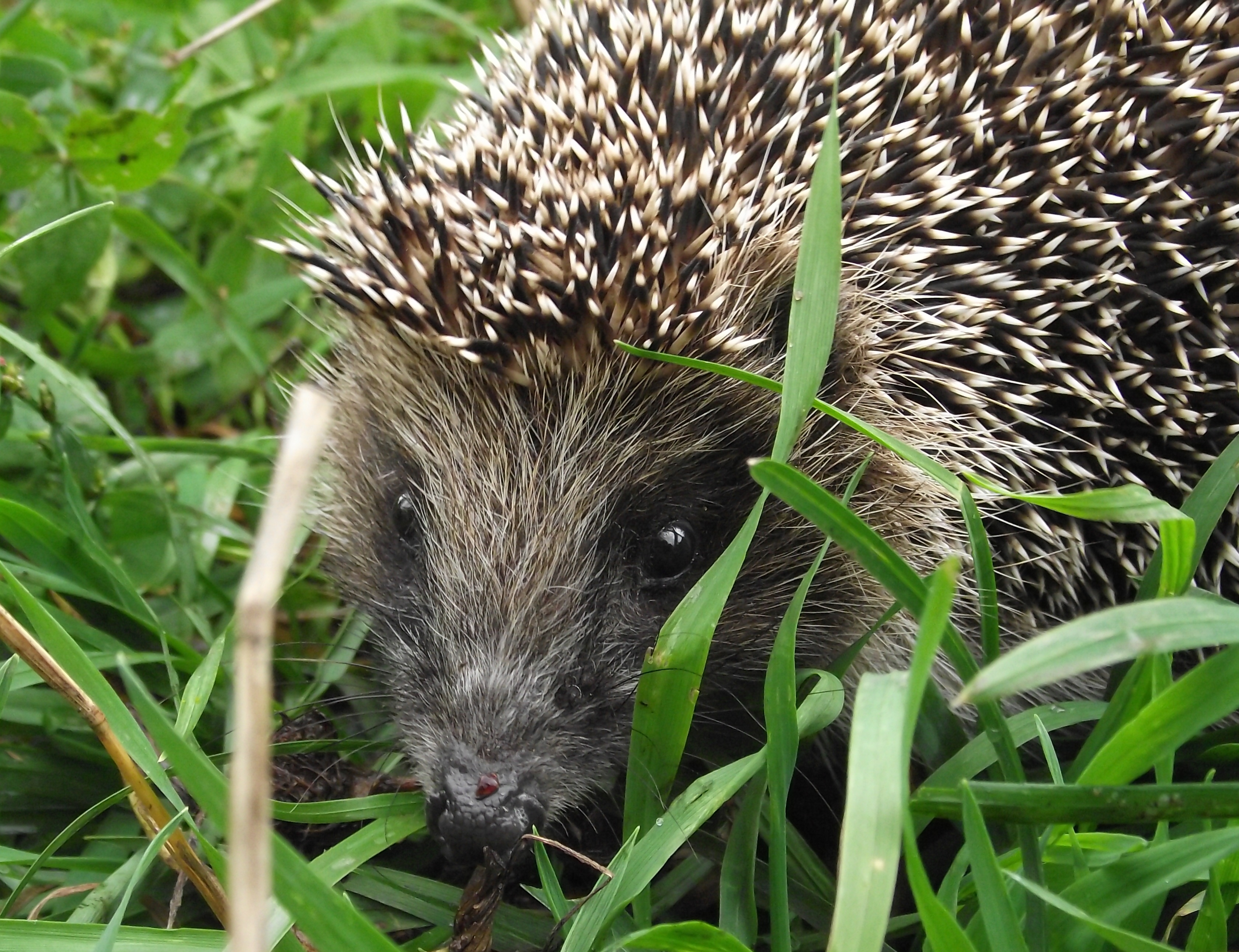 Erinaceus roumanicus, Moscow region, Russia